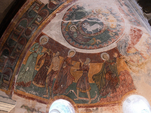 Medieval fresco from C12 depicting life of St. Giles. Crypt Saint-Aignan Loir-et-Cher, France